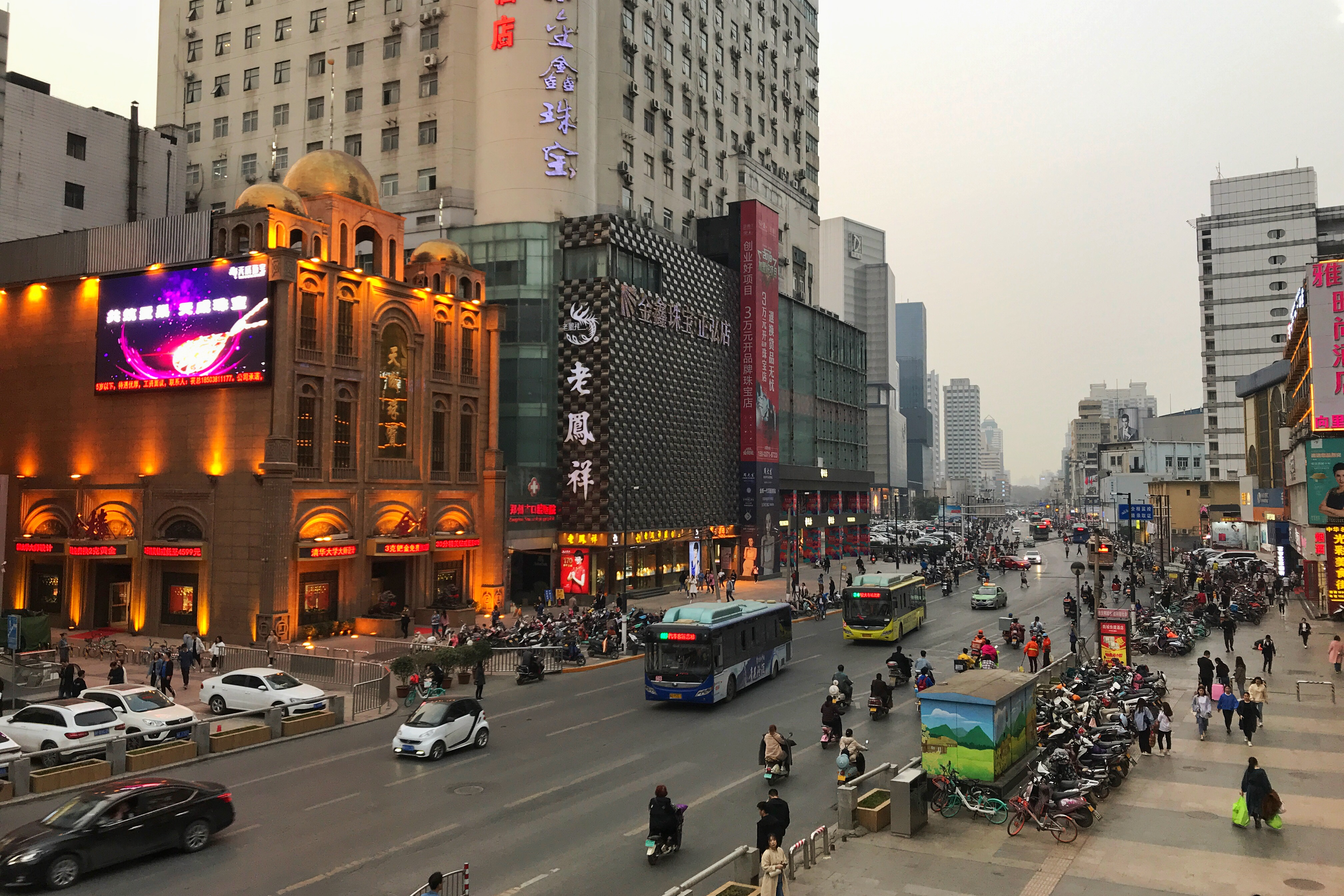 Erqi Road, one of the main shopping streets in Zhengzhou